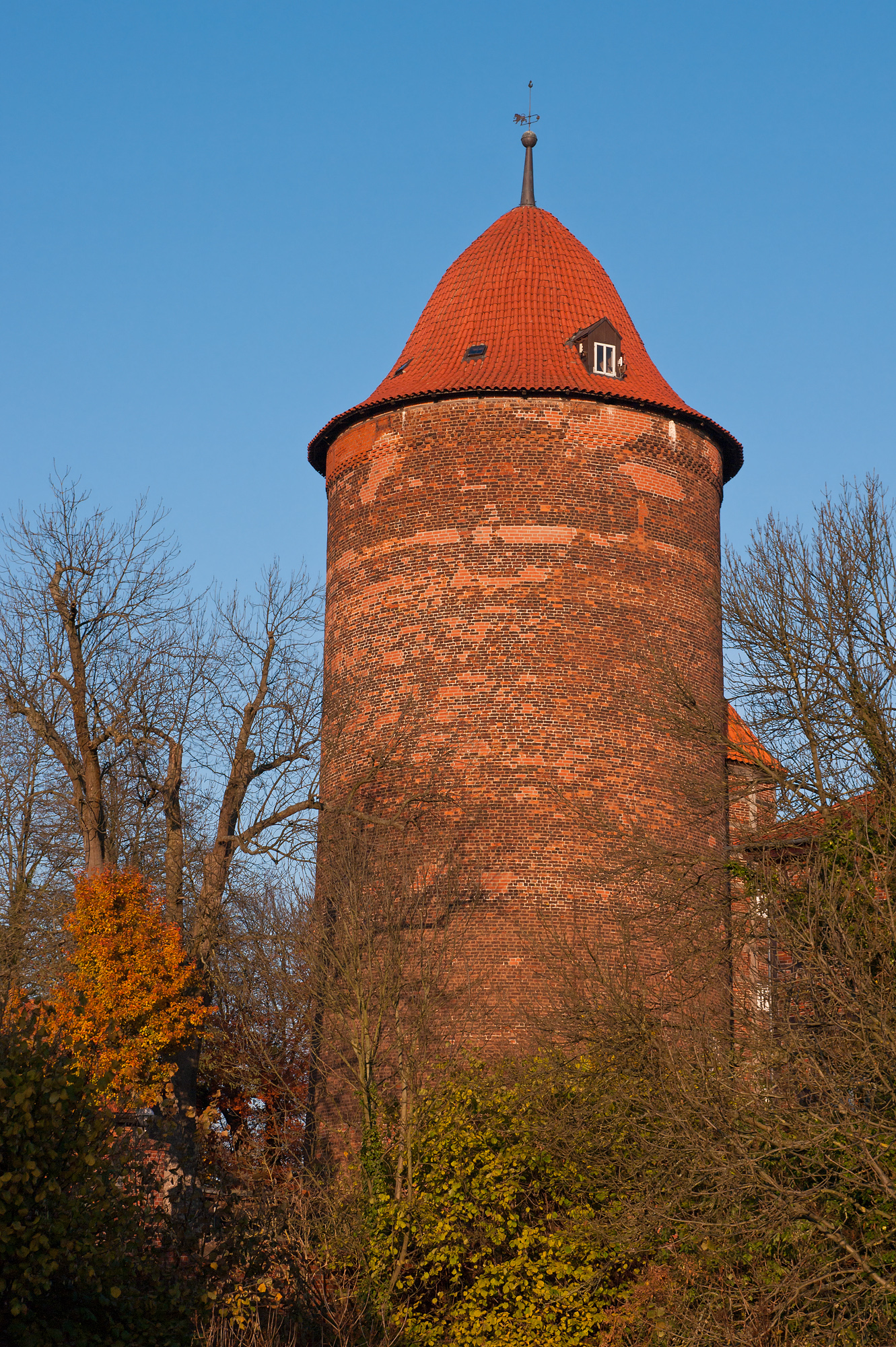 The castle tower "Waldemarturm" in Dannenberg (Elbe), built around the year 1200.